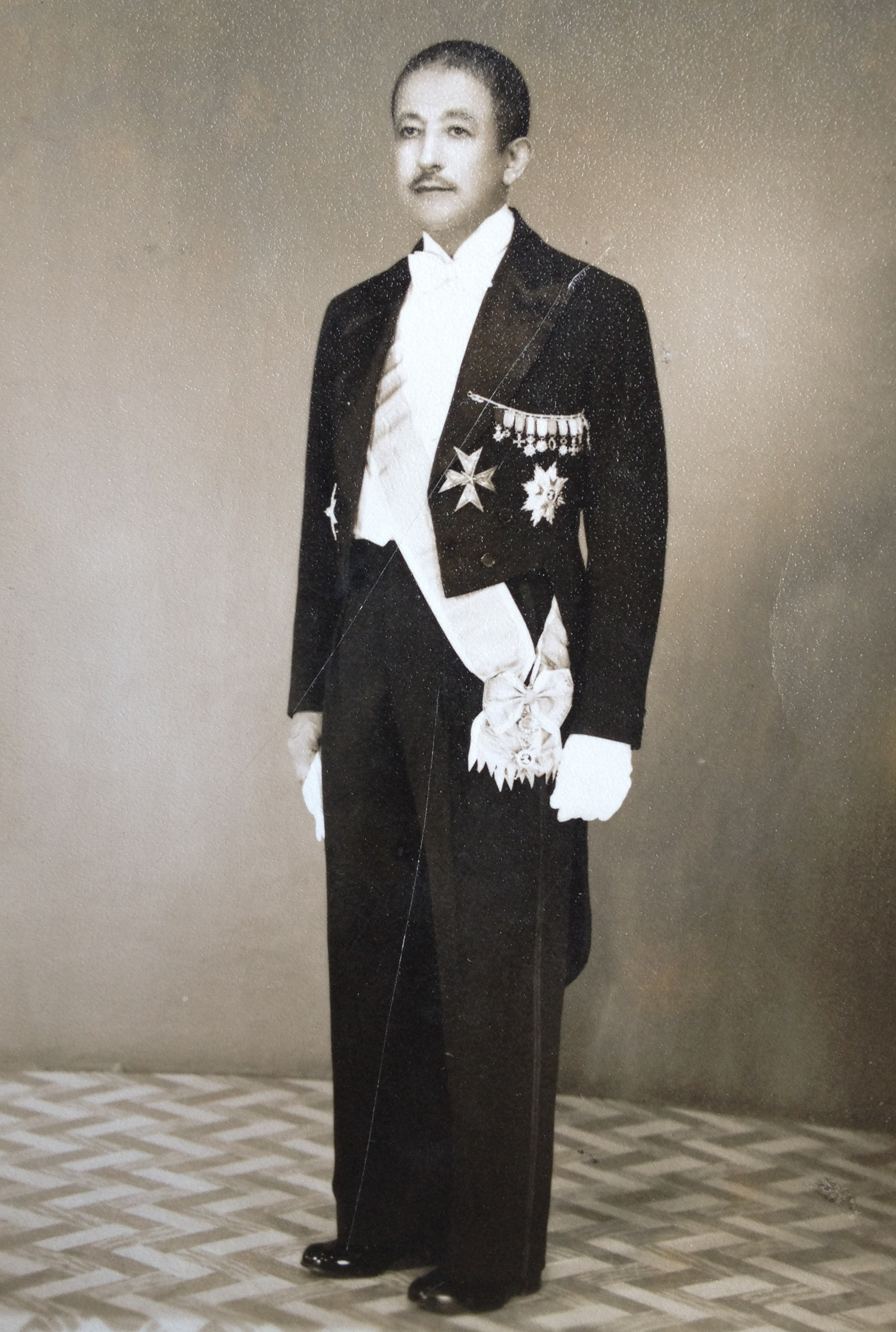 Imperial Ethiopia government official, scholar, poet, author, playwright and a diplomat